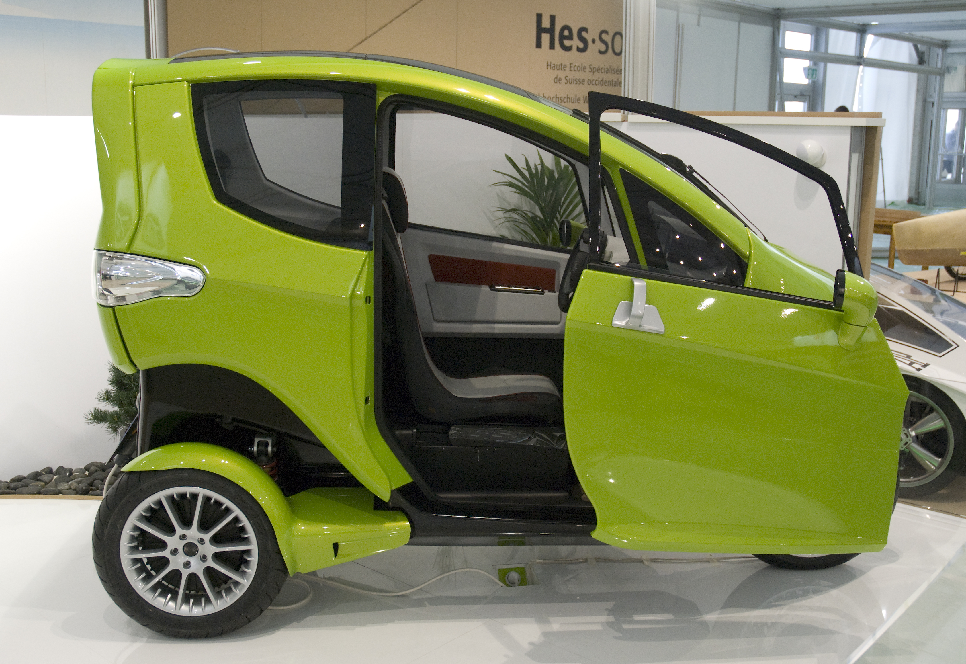 Geneva Motorshow 2011, Tilter side